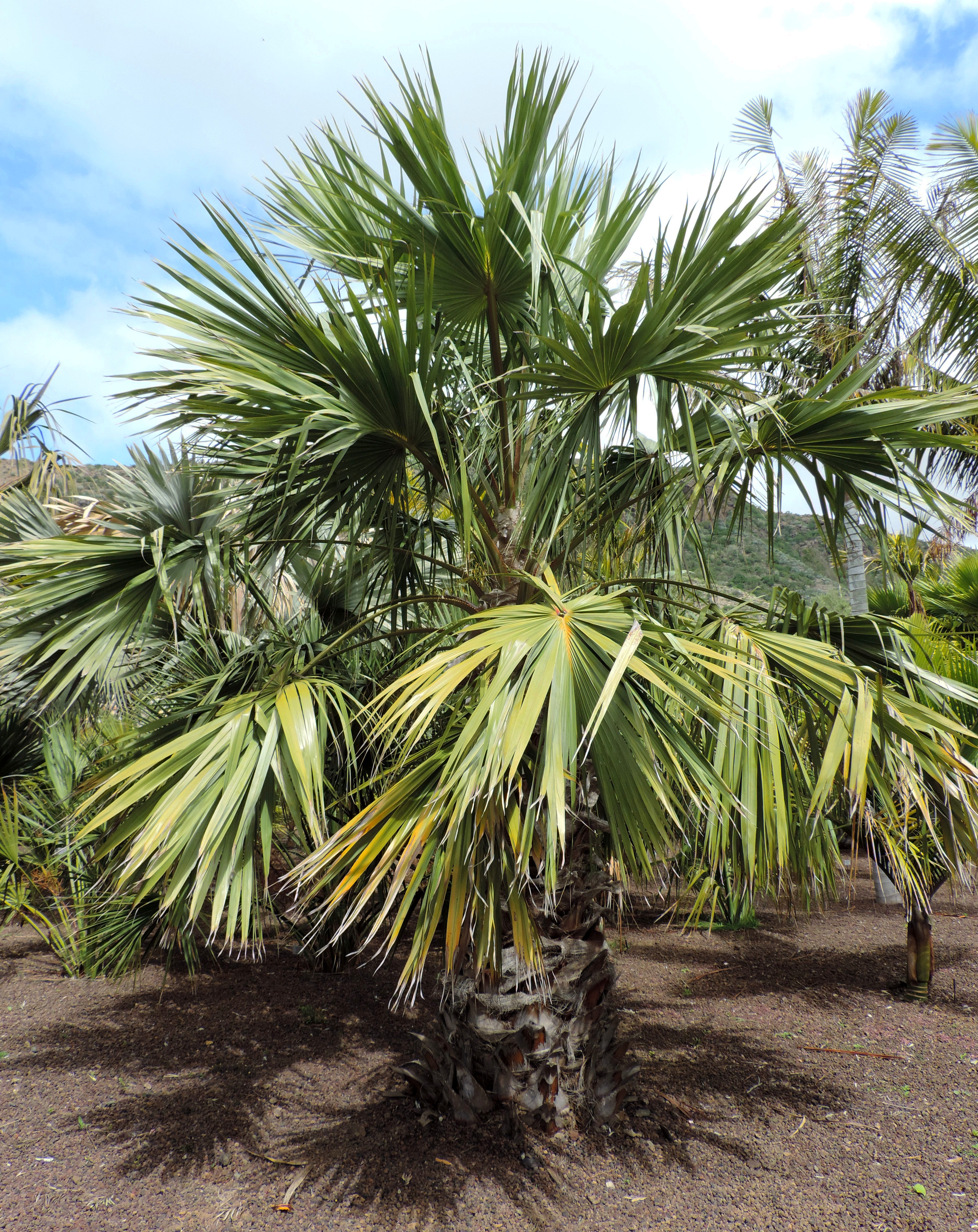 Livistona saribus in Jardín Botánico Canario Viera y Clavijo, Gran Canaria